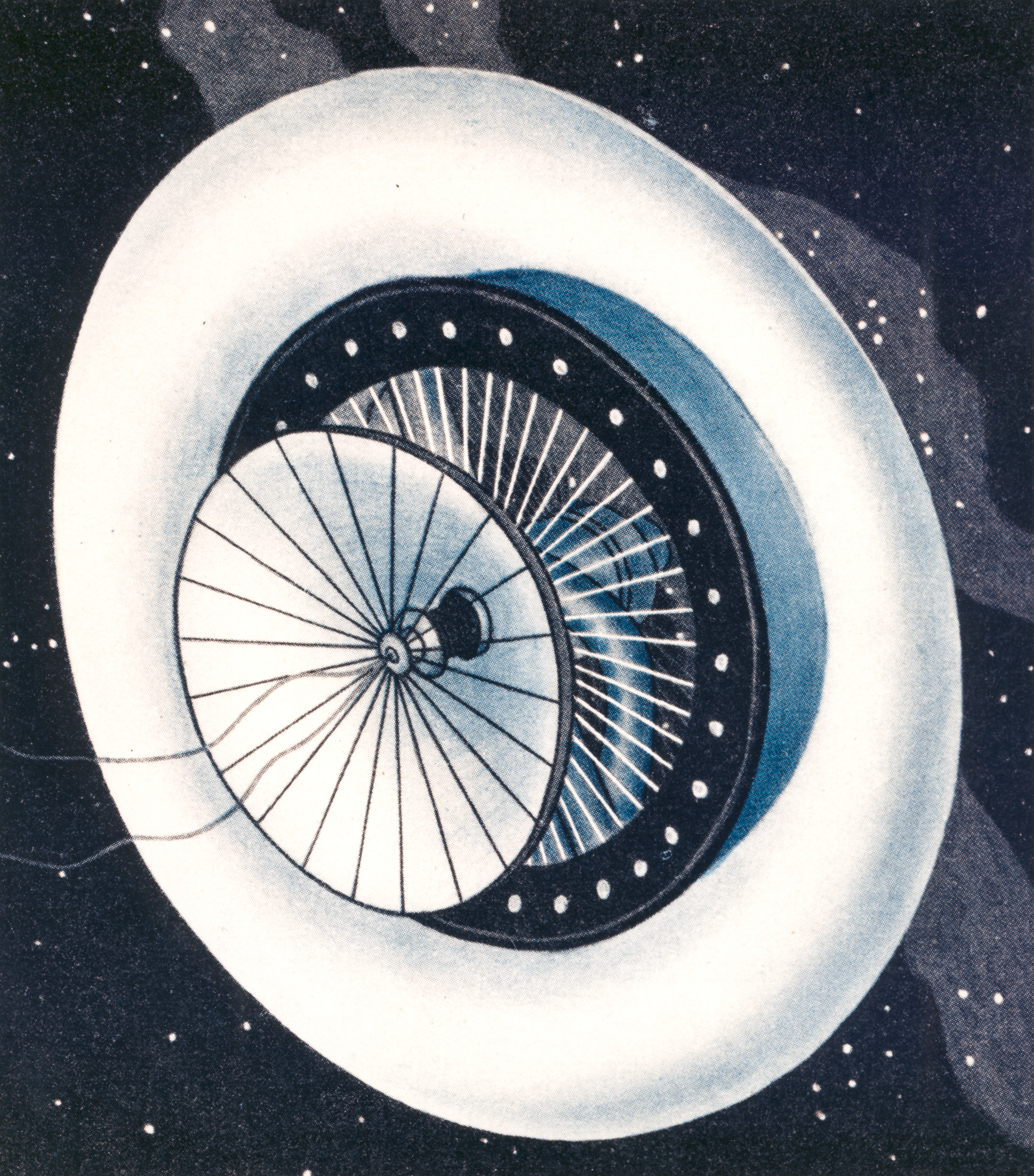 1929 Hermann Noordung depiction of a space station habitat wheel. Hermann Potocnik (1892-1929), also known as Herman Noordung, created the first detailed technical drawings of a space station. Power was generated by collecting sunlight through the concave mirror in the center. This was one of three components of Noordung's space station. The other two were the observatory and the machine room, each connected to the habitat by an umbilical.